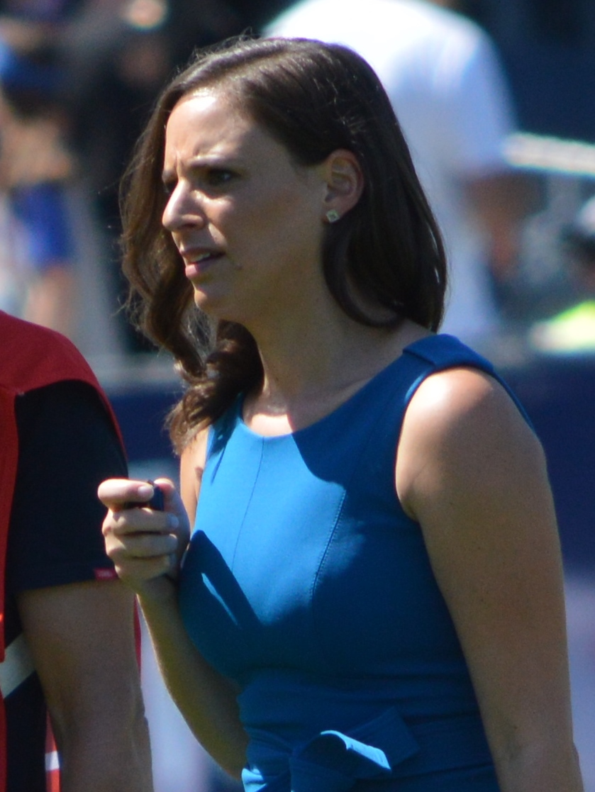 Neroli Meadows working for Fox Footy during their broadcast of the round 5, 2017 AFL Women's match between Carlton and the Western Bulldogs